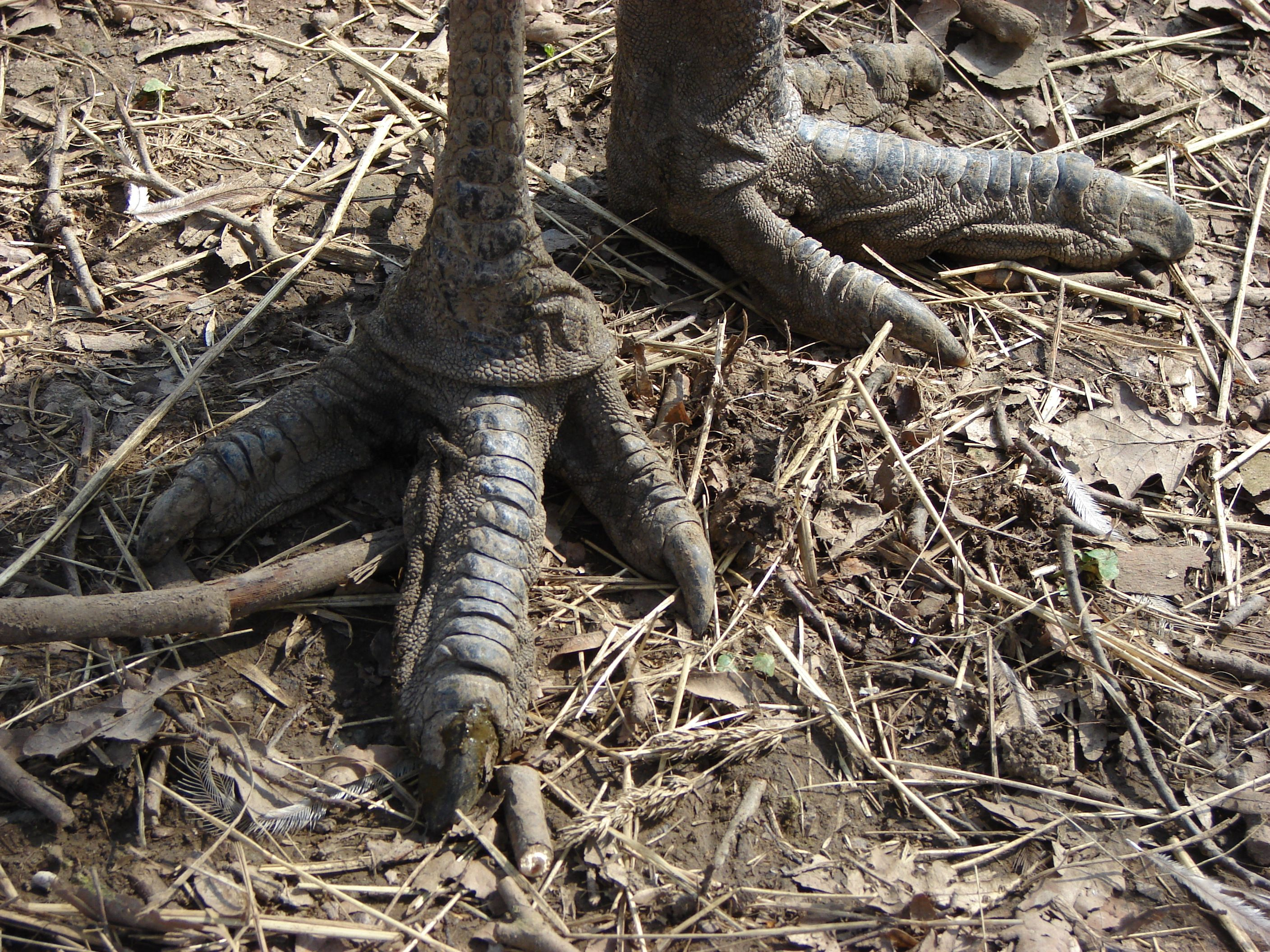 Emu in the zoo of Stadt Haag, Austria. Closeup of the feet.